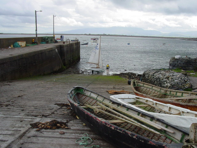 Scraggane Pier Scraggane Pier with Scaggane Bay beyond.